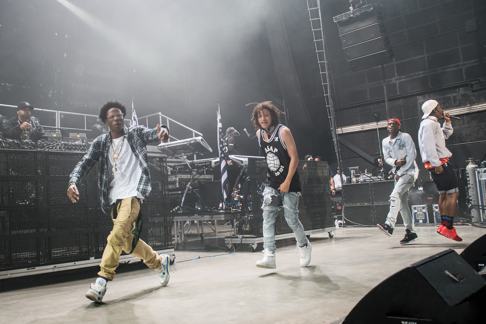 Joey Badass and members of ASAP Mob at The Come Up Show's 2013 Under the Influence Tour in Toronto.